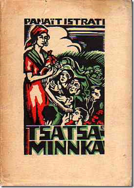 Bookcover for Tstatsa Minnka by the Romanian author Panait Istrati, designed by Dutch artist Fré Cohen in 1931.